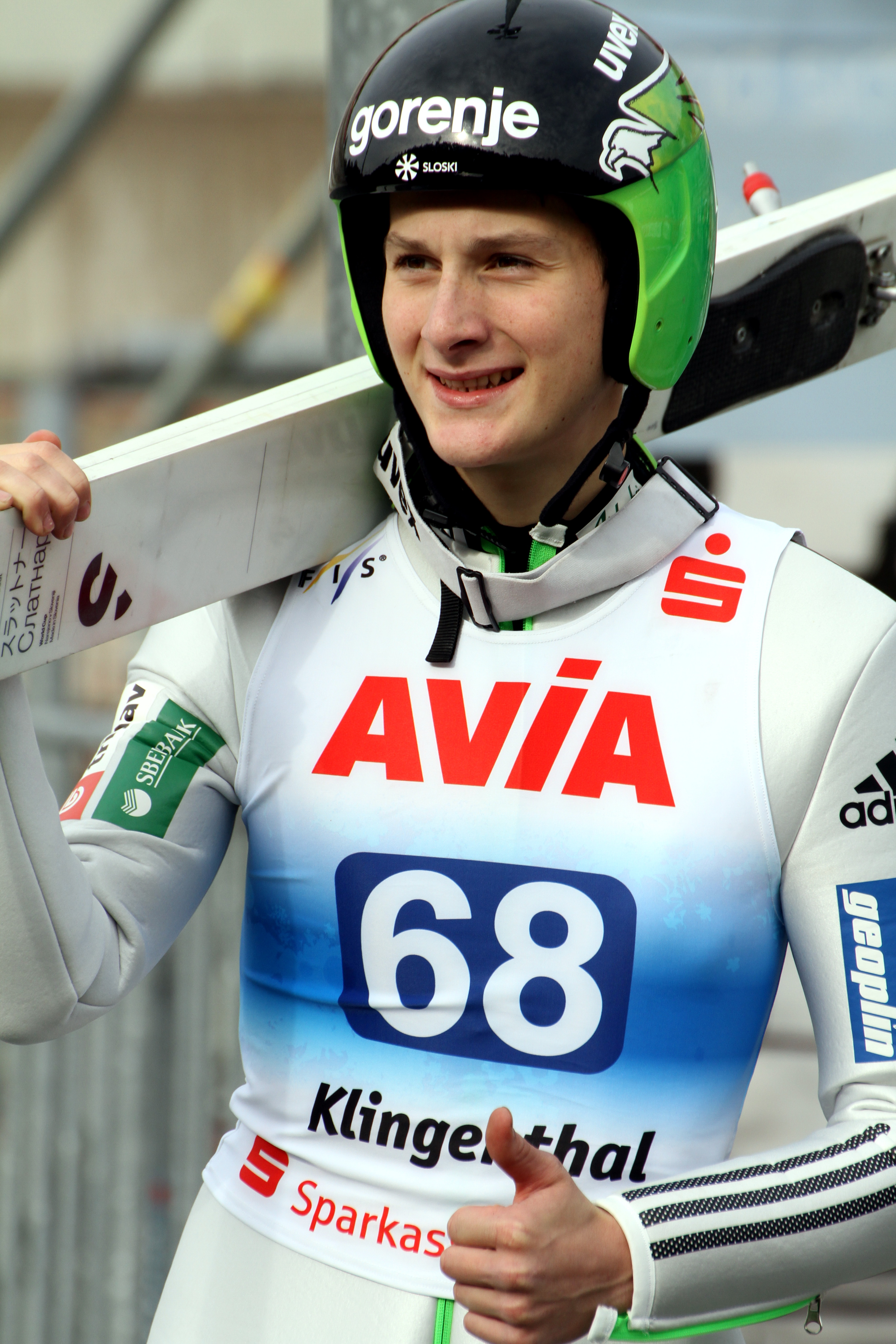 FIS Ski Jumping Summer Continental Cup Klingenthal 2017 Domen Prevc